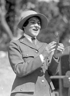 Ranger naturalist Polly Patraw with a foliage sample. June 1931 nps photo by Collins.